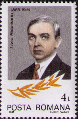 1985 Romanian Post, 4 lei, multicoloured, representing Liviu Rebreanu; Series:Famous personalities; Design: Eugen Palade